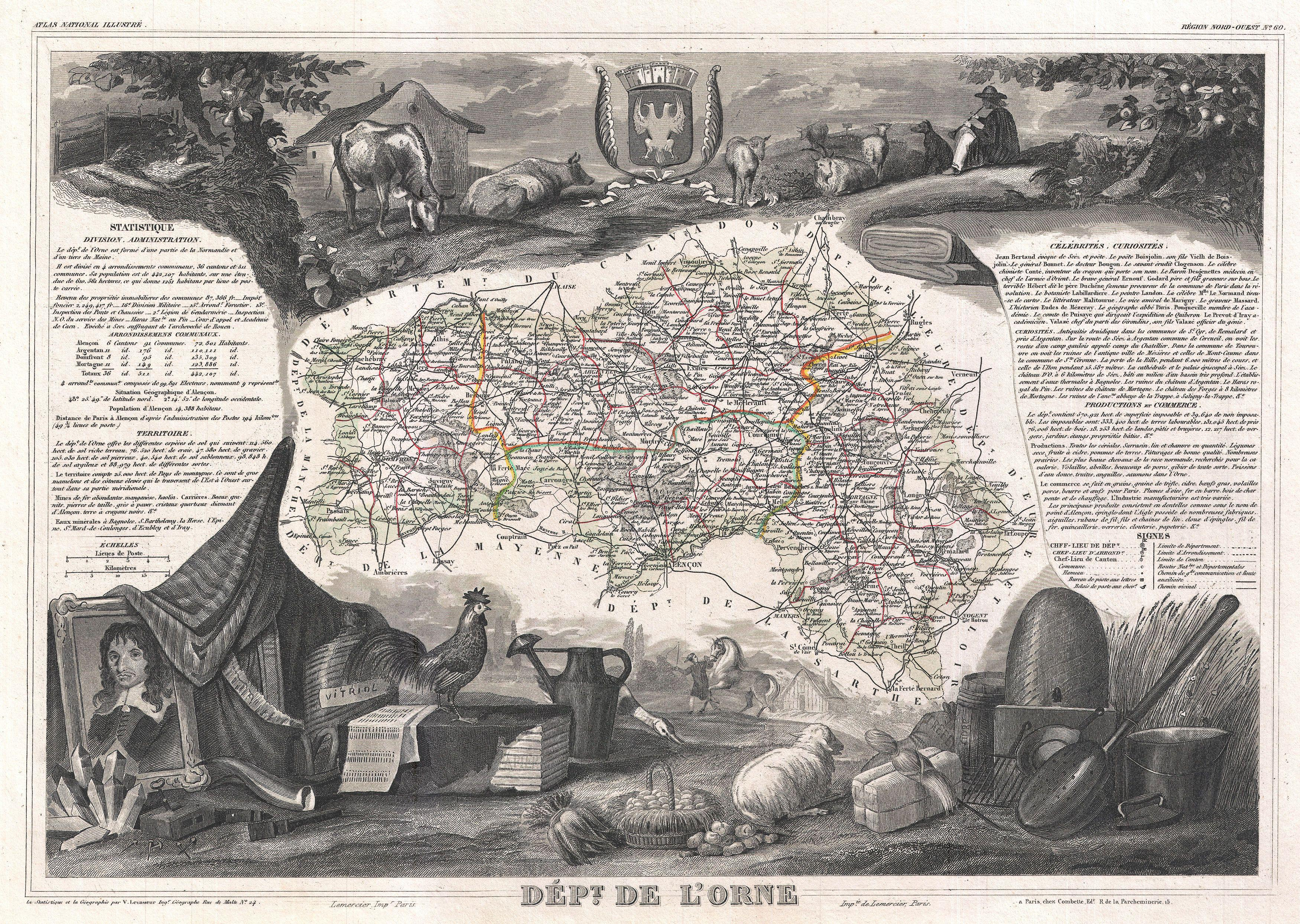 This is a fascinating 1852 map of the French department of Orne, France. This area, part of Normandy, includes the village of Camembert, where the famous Camembert cheese was first developed. Camembert is a soft, creamy, surface-ripened cow's milk cheese, similar to Brie. The map proper is surrounded by elaborate decorative engravings designed to illustrate both the natural beauty and trade richness of the land. There is a short textual history of the regions depicted on both the left and right sides of the map. Published by V. Levasseur in the 1852 edition of his Atlas National de la France Illustree.